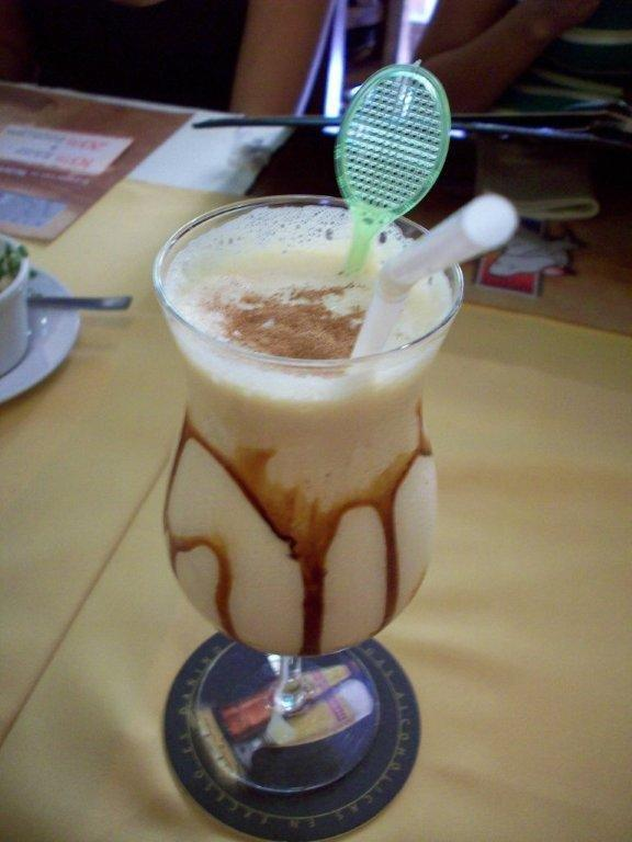 Cocktail de Algarrobina. El Cántaro, Lambayeque.